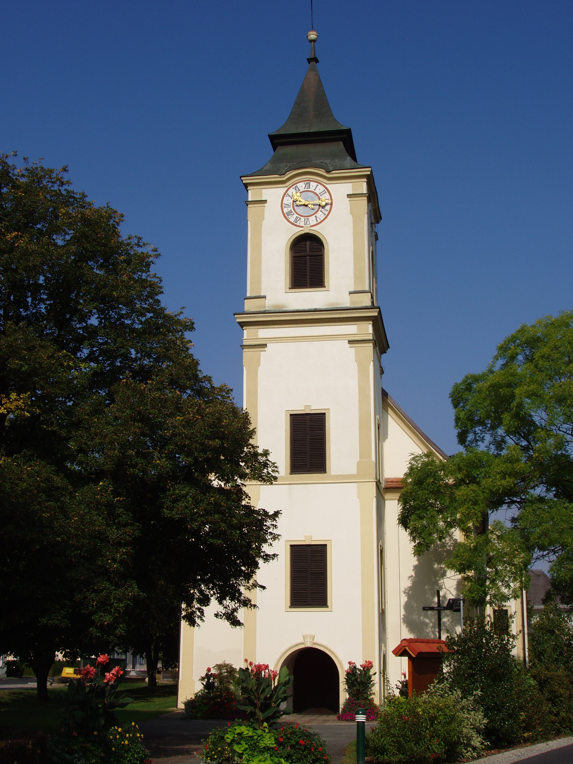 Pfarrkirche Großwilfersdorf